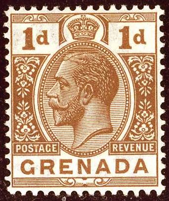 1 d Grenada issue 1923, unused. Michel N°86 braun.